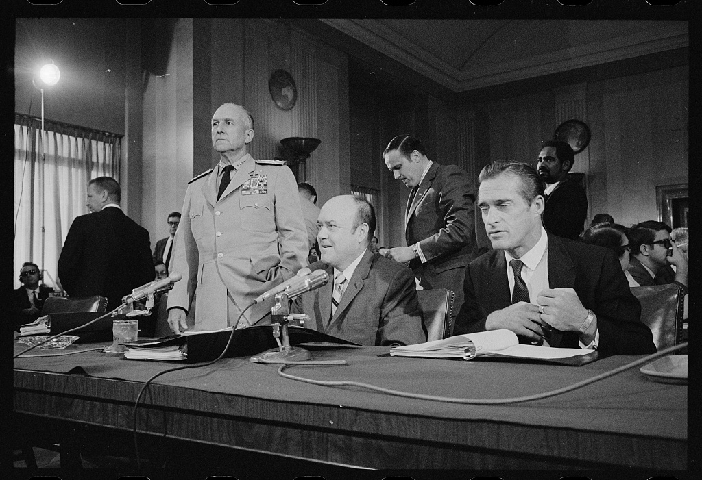 United States Secretary of Defense Melvin Laird (center) before the Senate Foreign Relations Committee